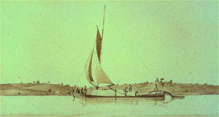 Durham Boat on the St. Lawrence River in Ontario or Quebec, Canada. It is part of an album of watercolors done by Henry Byam Martin during an 1832 journey through the United States and Canada.